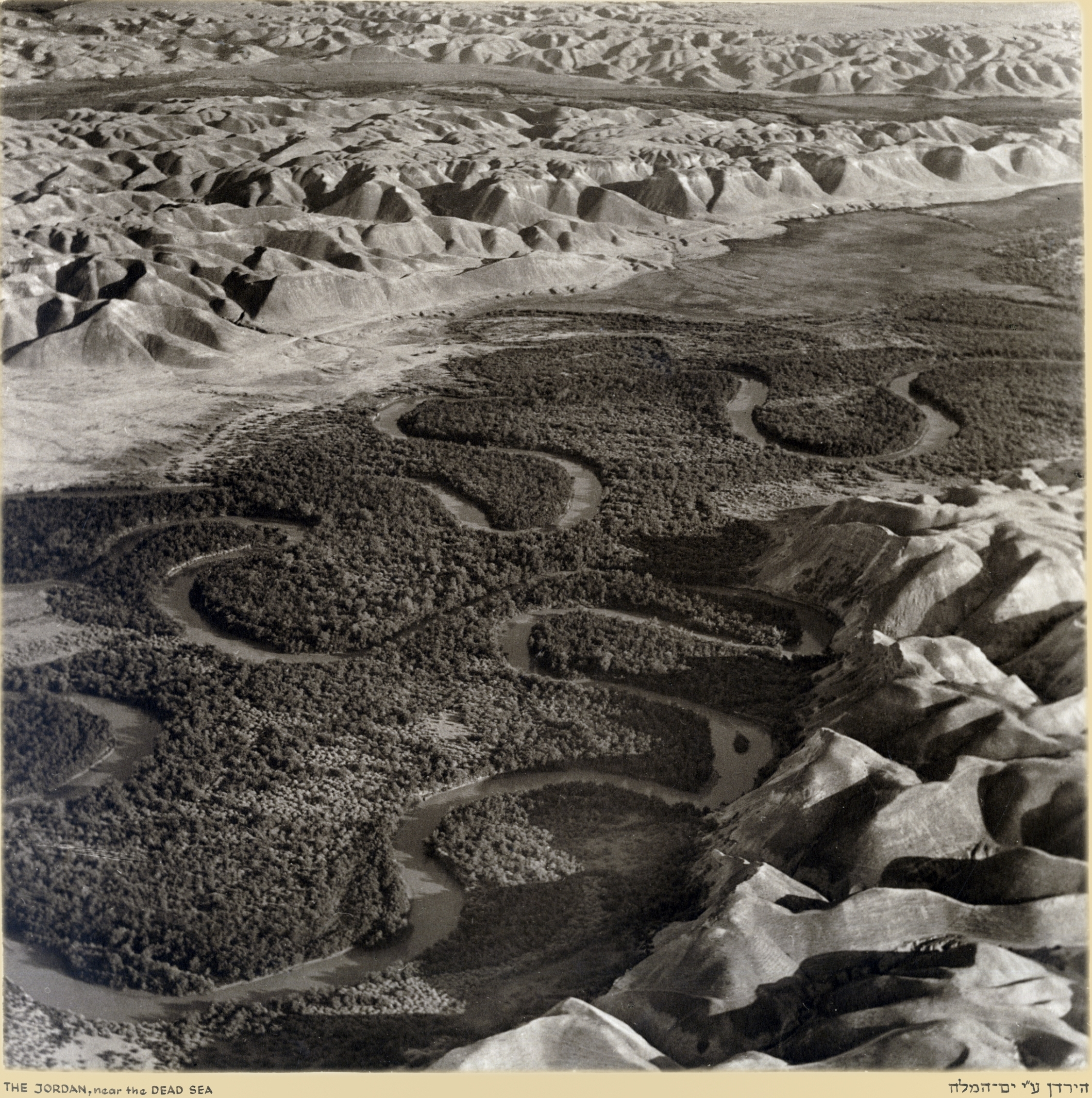 Z. Kluger. Erez Israel from the air - 1937-38